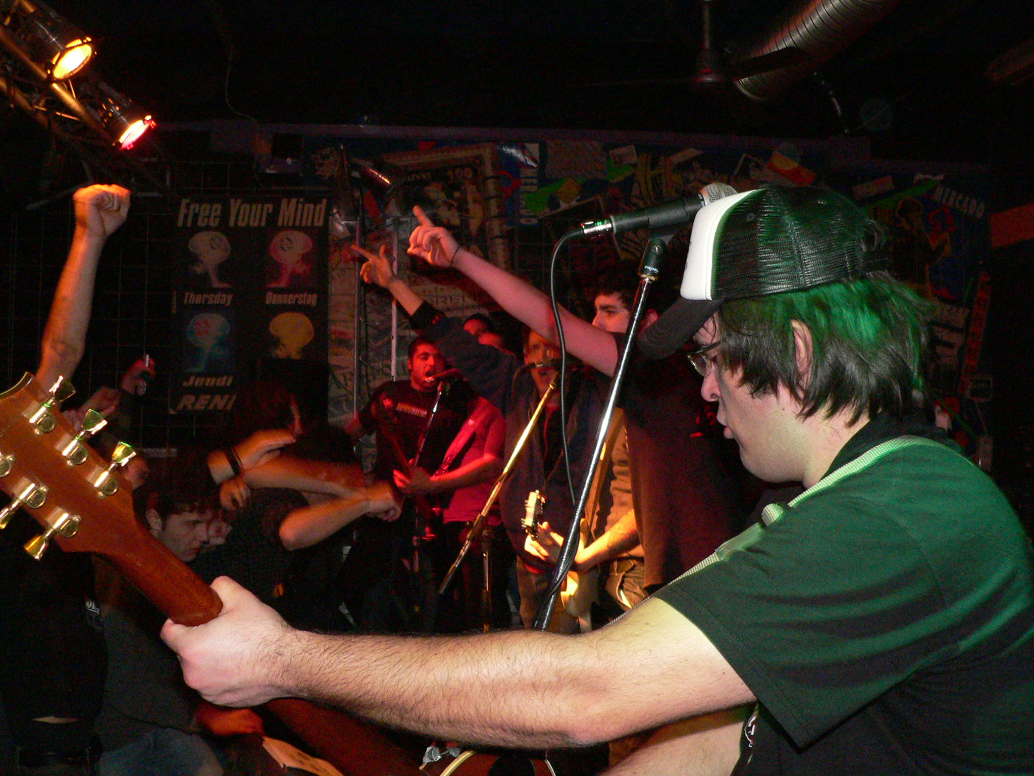 DEROZER PLAYING LIVE AT "RENFE" (FERRARA, ITALY)